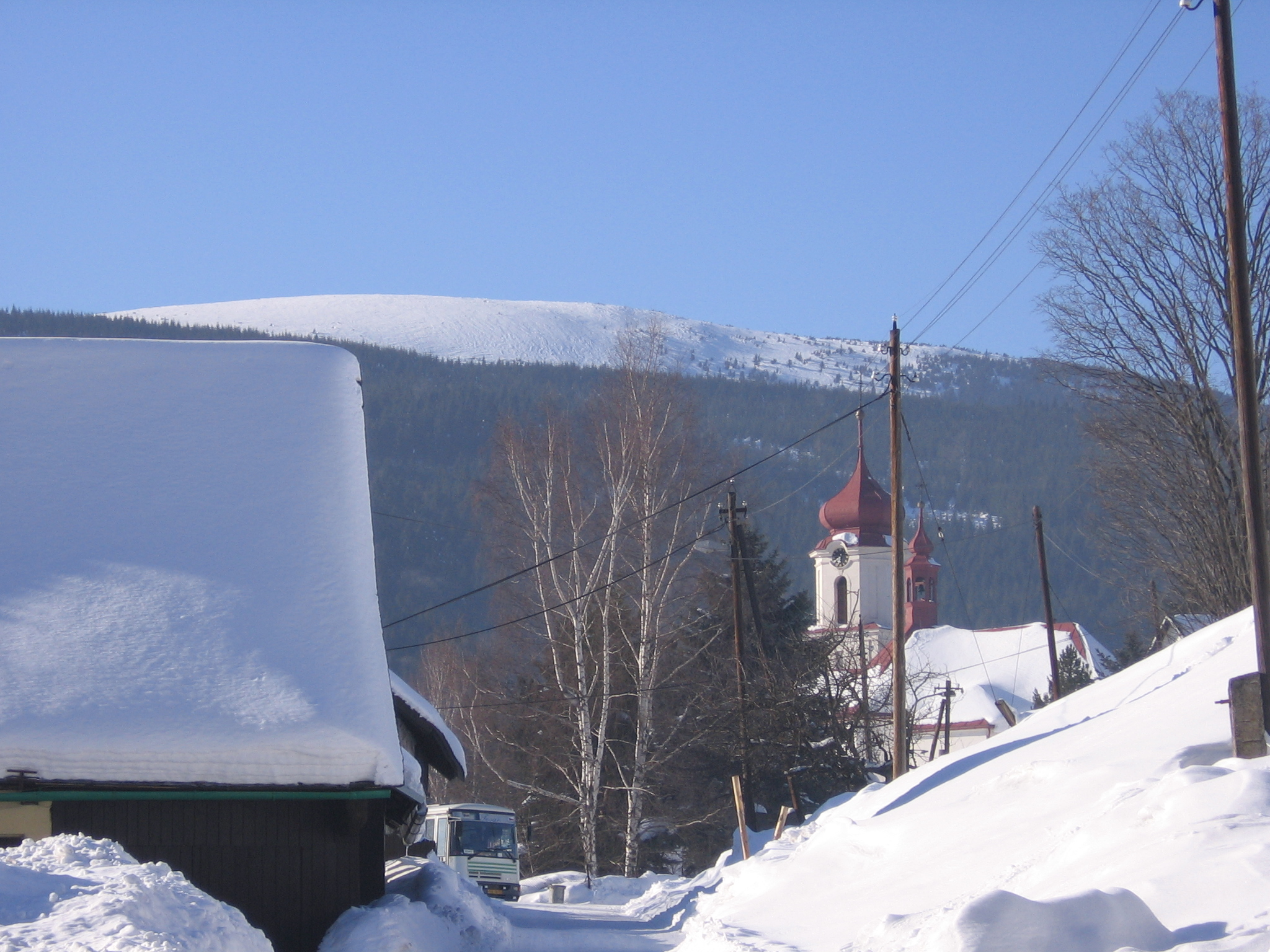 Church of St John the Baptist in Nová Seninka with Králický Sněžník mountain in the background, winter 2006